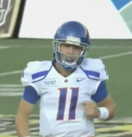 Kellen Moore in a game against Wyoming(18/09/2010)